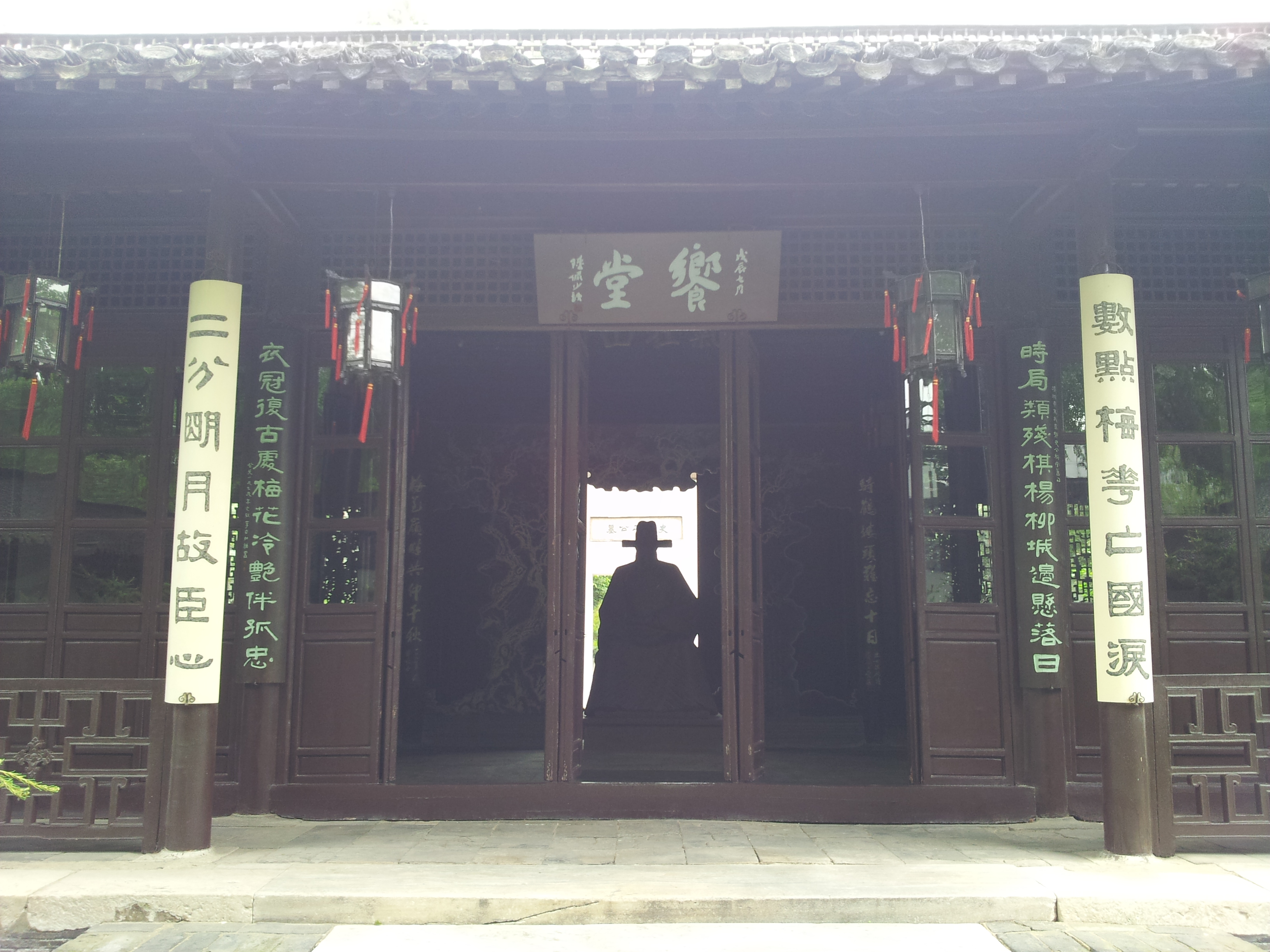 Shi Ke Fa Memorial Hall